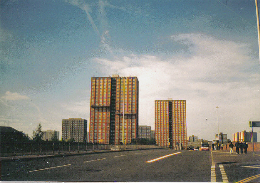 Tower blocks in the City of Salford, Greater Manchester, England, as photographed in 2001. Tower blocks were mostly built in Salford between the 1950s and 1970s.